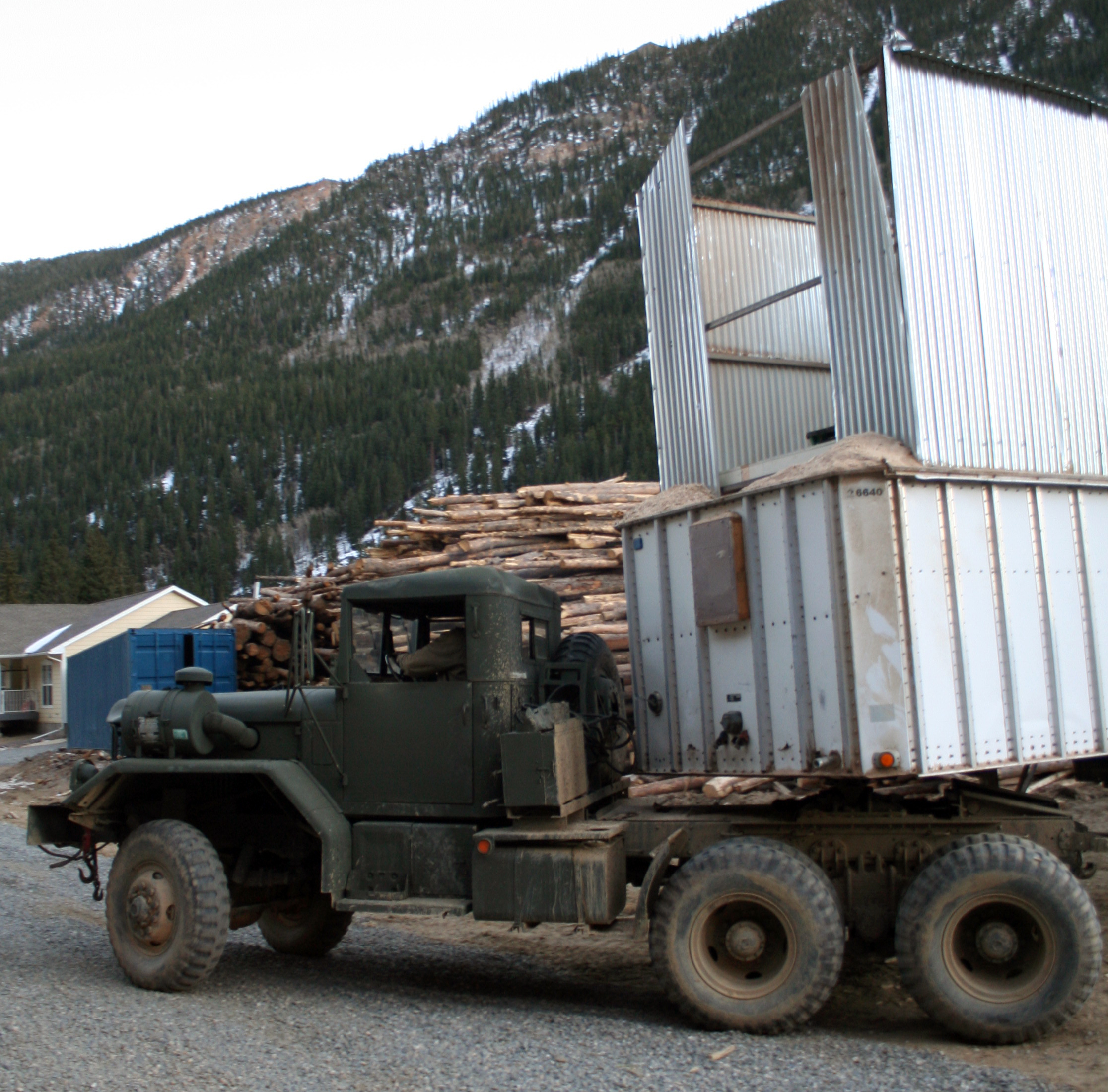 M818 5-ton Tractor Truck of M809-Series used at a mine in Silver Plume, Colorado.